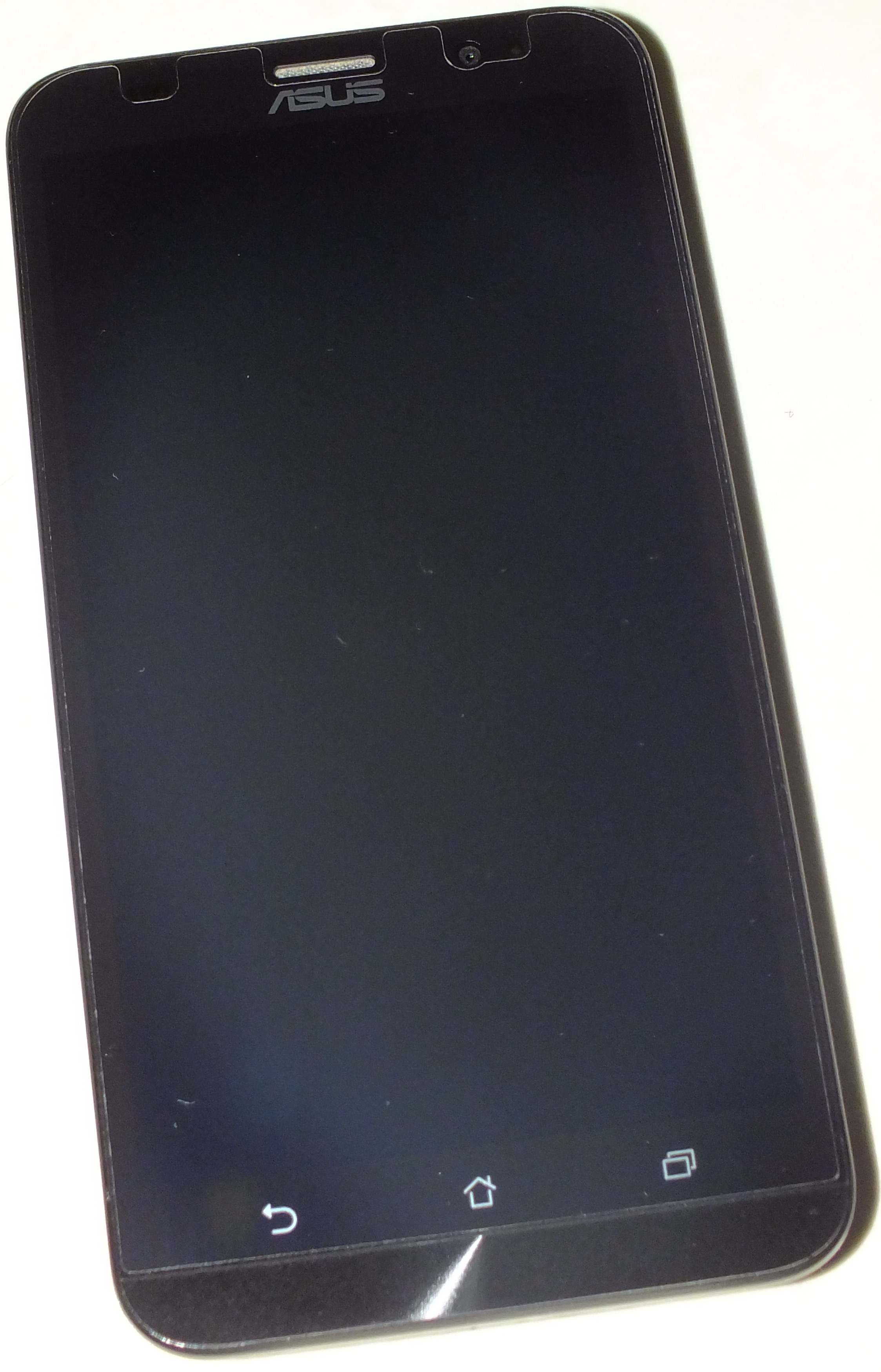 front view of my Asus Zenfone 2